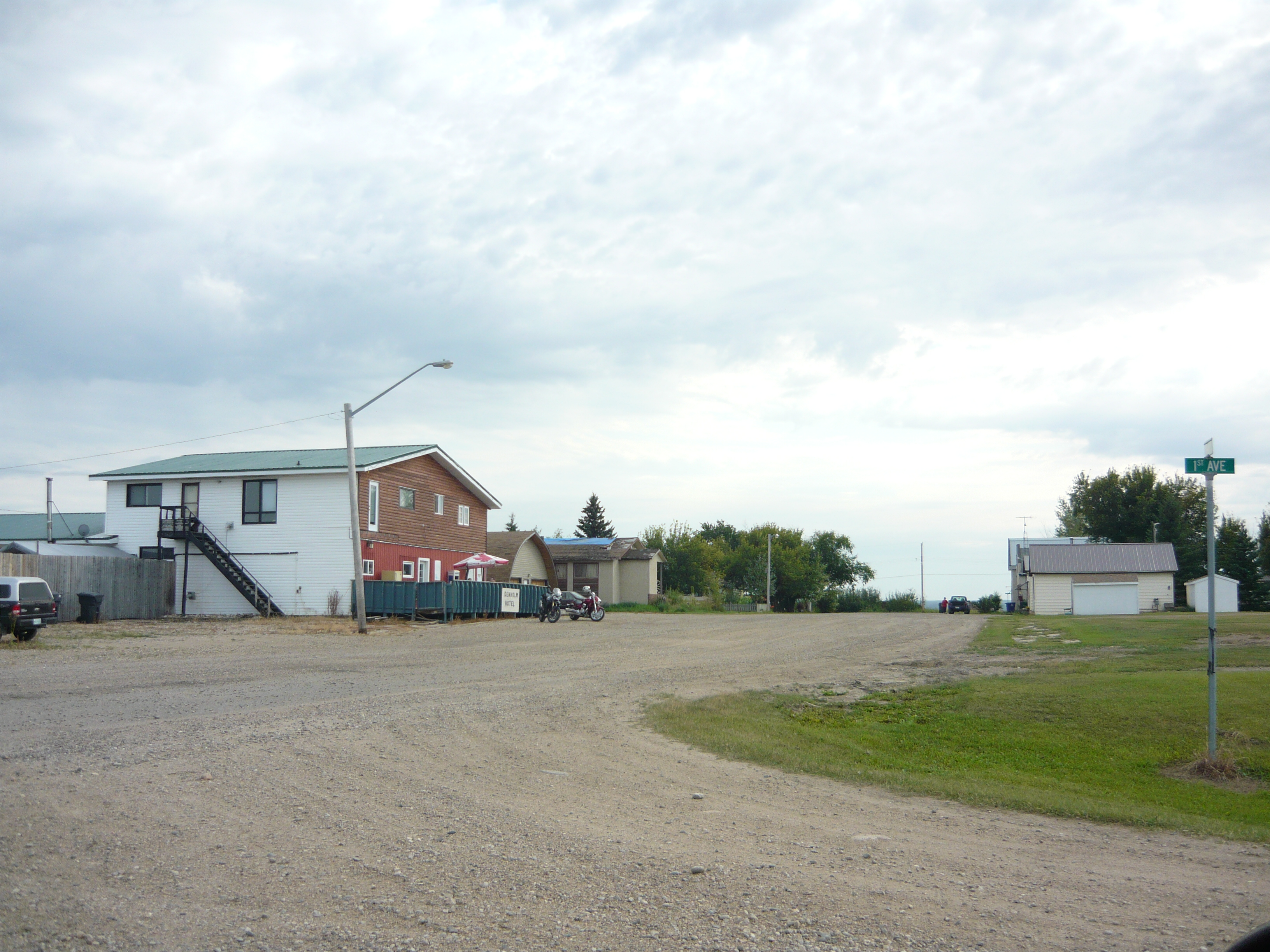 Main Street (intersection of First Avenue), Denholm, Saskatchewan, Canada. The large building is the Denholm Hotel.